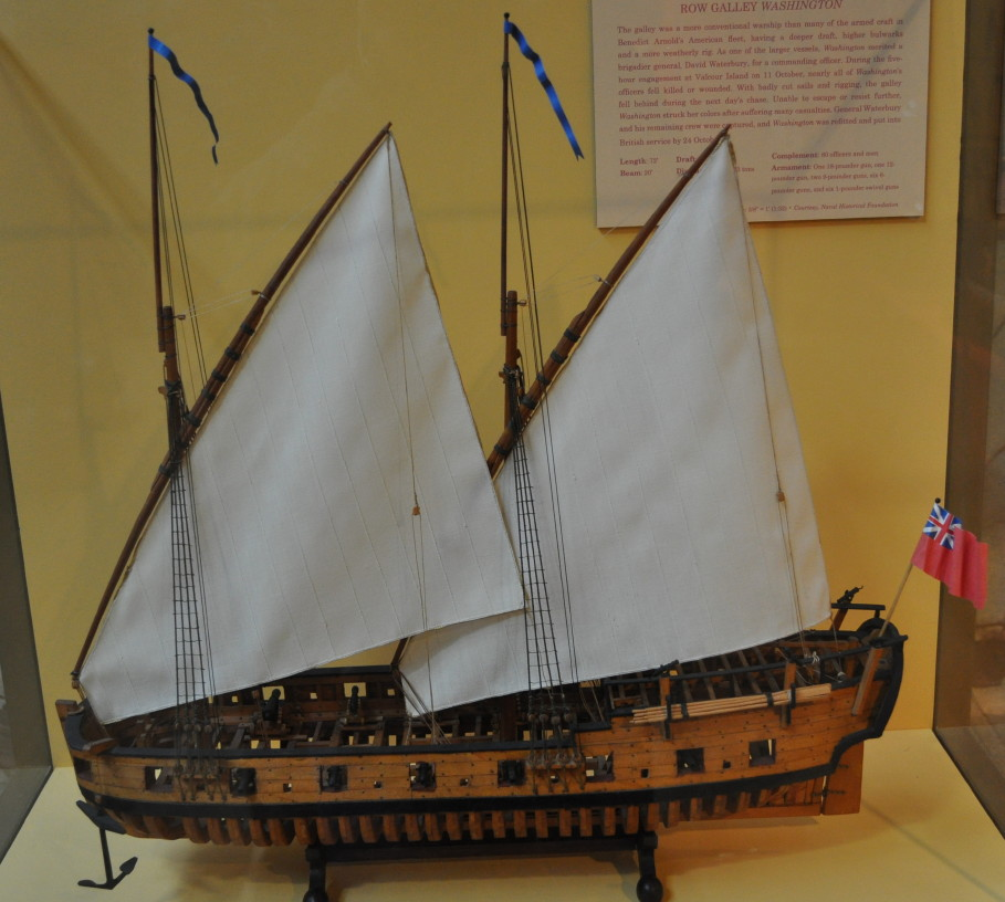 Model of the row galley Washington in the National Navy Museum